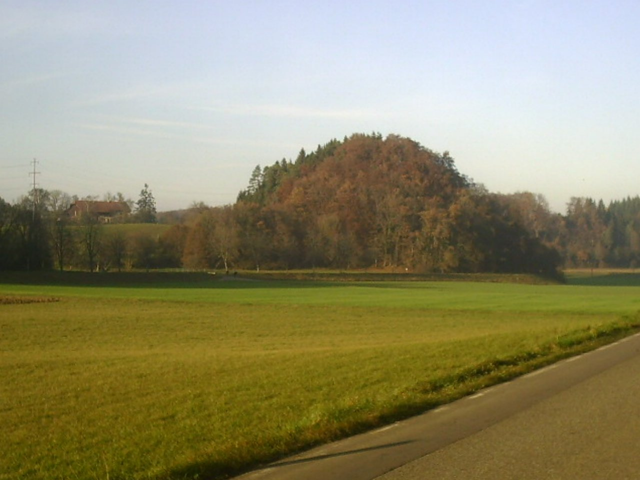 Castle Weissenburg, Klettgau